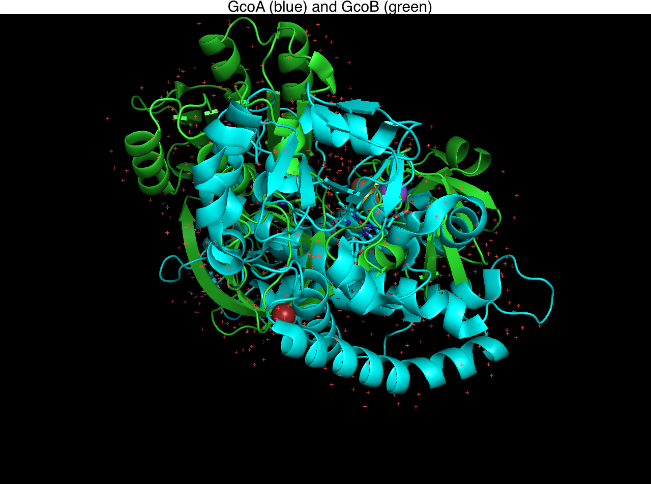 Molecule structure, interaction GcoA and GcoB